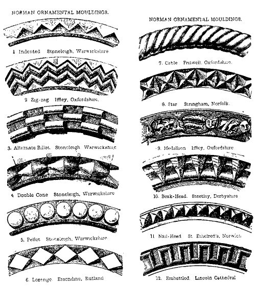 Norman ornamental mouldings